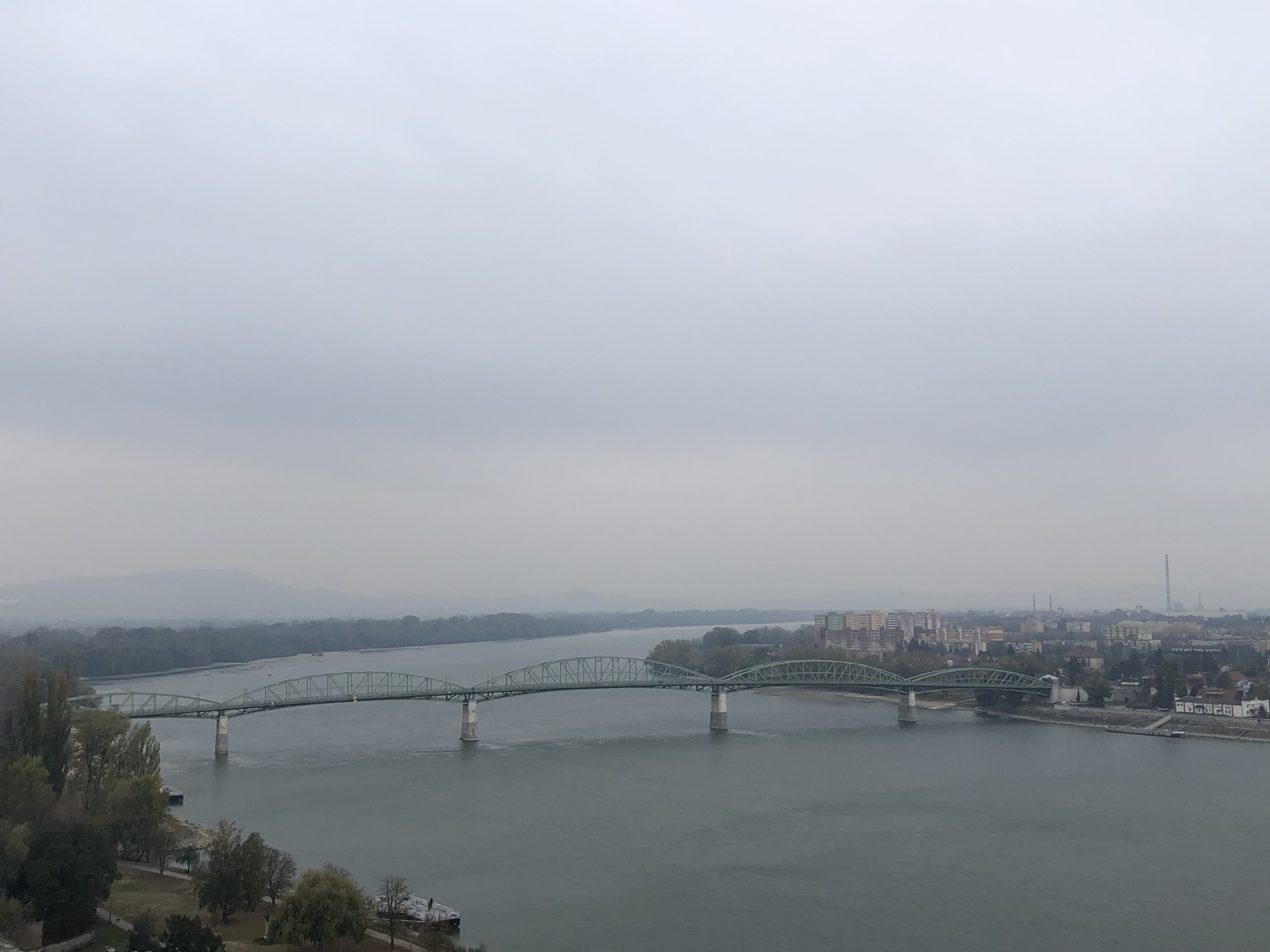 Mária Valéria bridge across the Danube at Esztergom (Hungary) and Štúrovo (Slovakia)